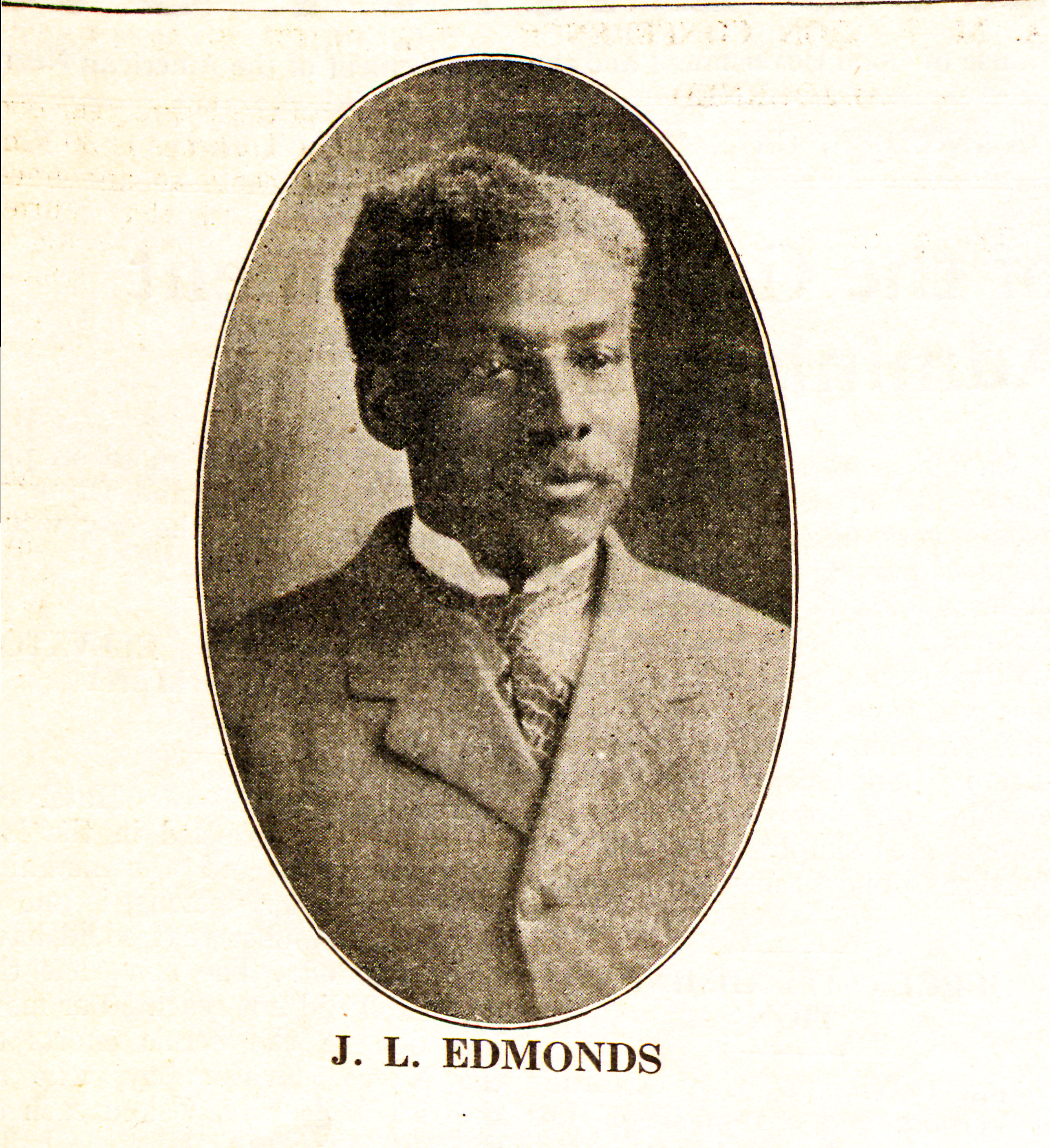 Photo of Jefferson Lewis Edmonds, owner and editor of the Liberator, a Los Angeles African American news-magazine that ran from approximately 1900 until Edmonds' death in 1913. This material is public domain.